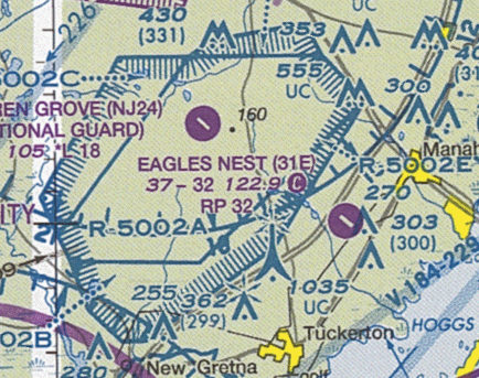 Section of the Sectional Aeronautical Chart for Washington, 90th edition, showing the restricted area R-5002 around Warren Grove, New Jersey Note: This map is valid until 9 February 2012, be sure to get the newest edition at the official FAA website